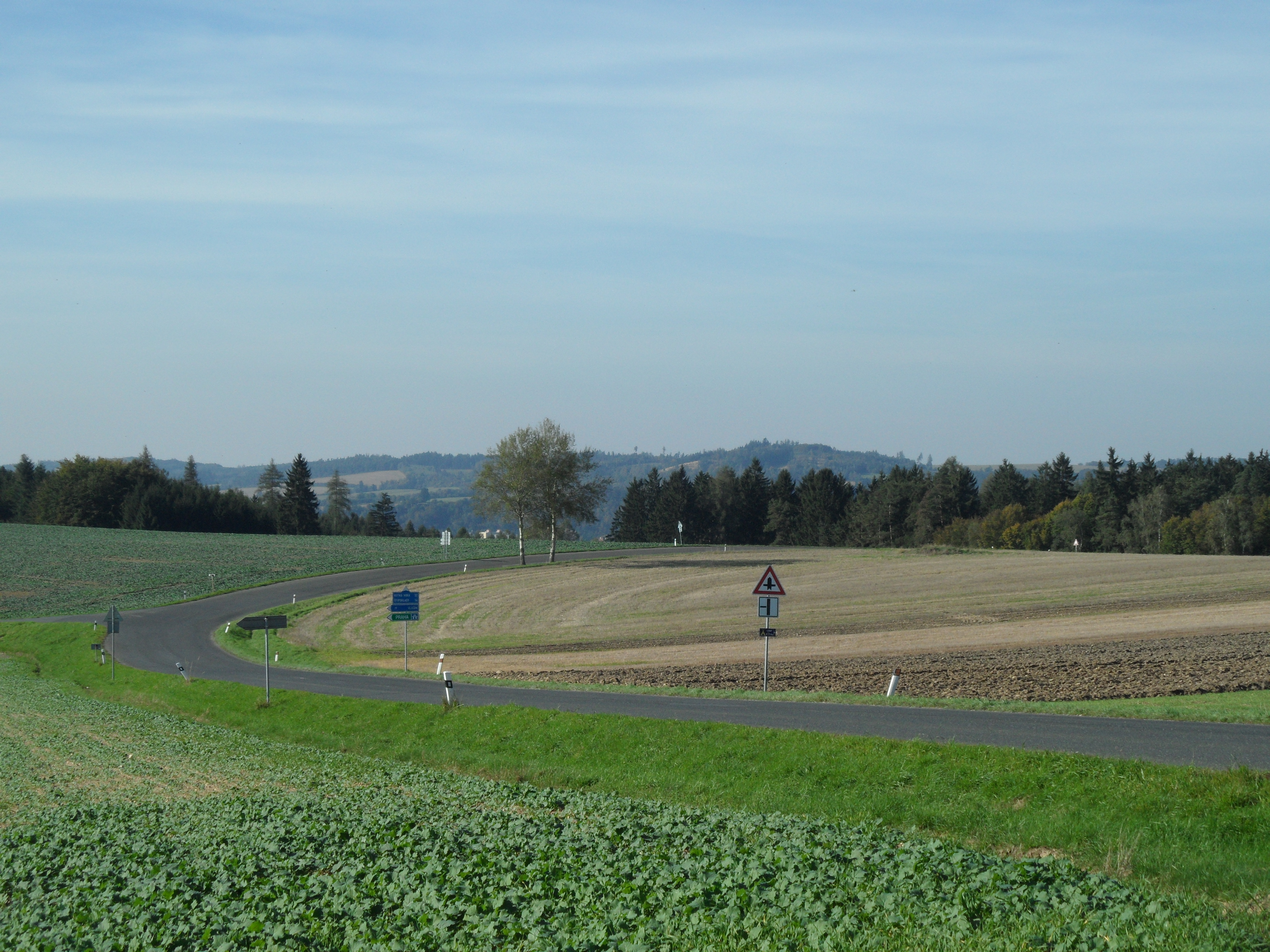 Road II/336. View to Posázaví Region, North Direction. Approx. Kilometr 5, before Turn-Off (Left) to Domahoř, Zruč nad Sázavou, Kutná Hora District, the Czech Republic.